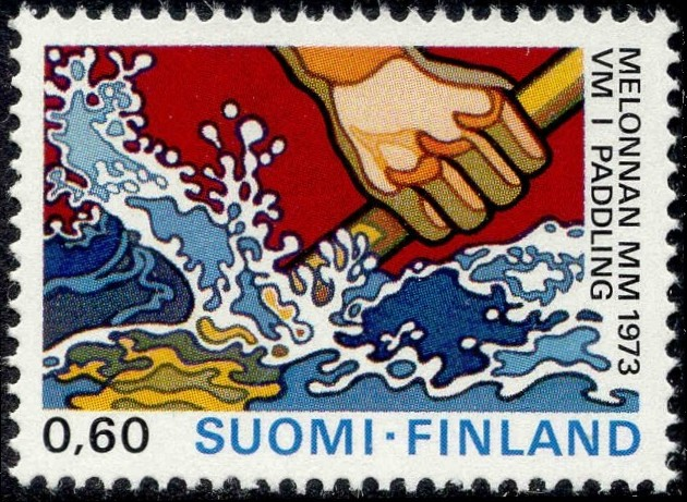 Postage stamp celebrating the 1973 World Championships in Paddling